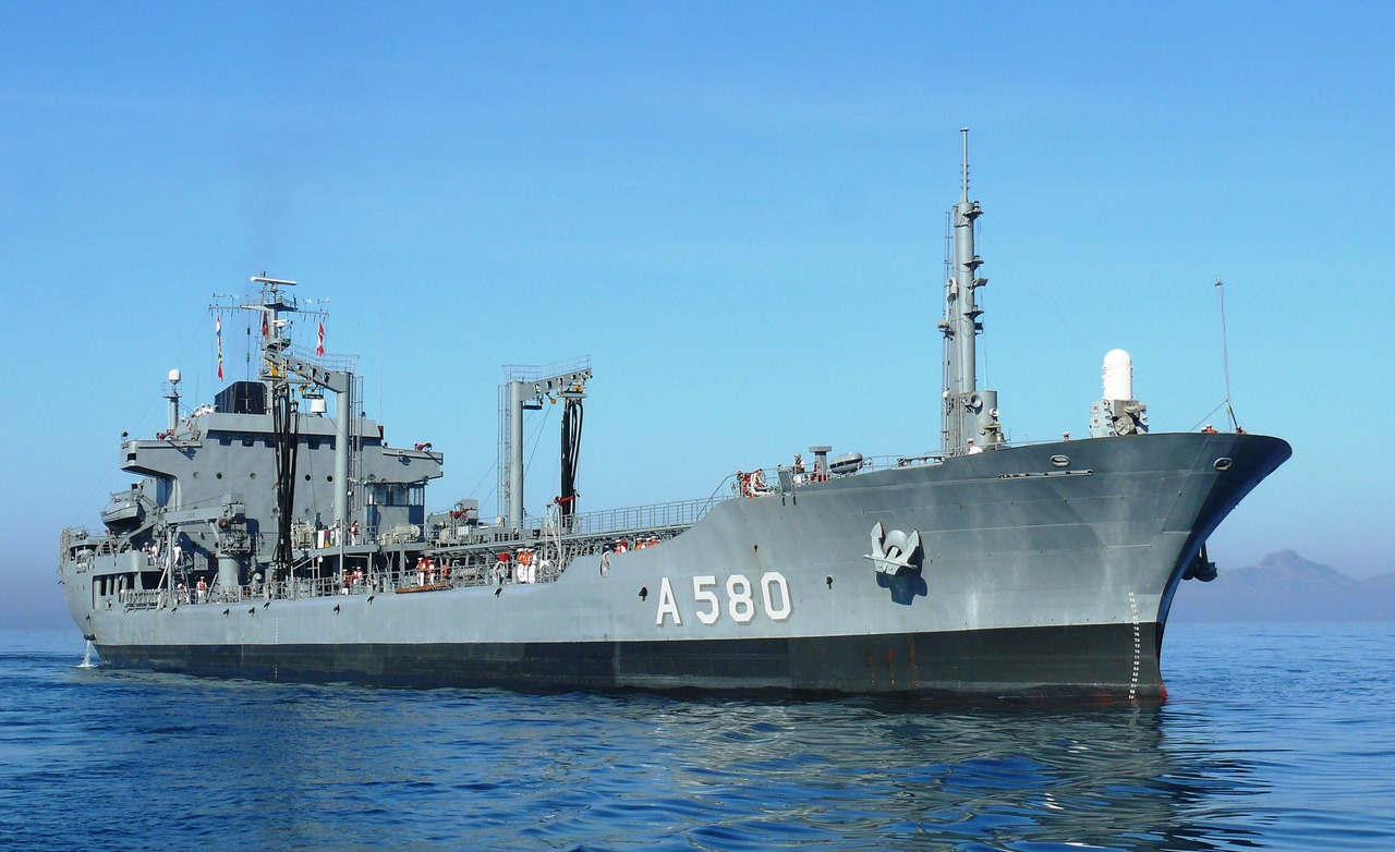 TCG Akar (A-580), Akar class fleet support ship, Cartagena, May 31, 2010.